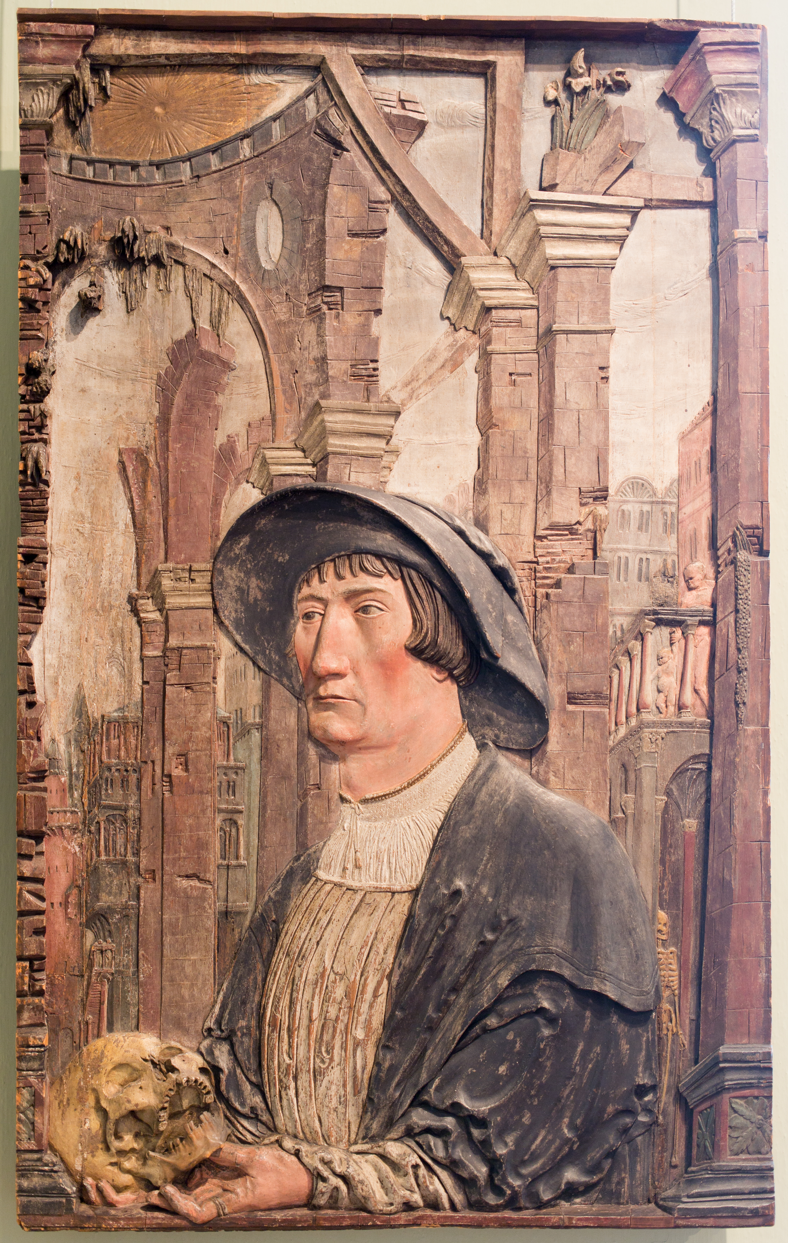 Unbekannter Künstler Tiedemann Giese, um 1525/1530Giese (1480–1550), Bischhof von Kulm und Ermland, war ein Freund des Astronomen Nikolaus Kopernikus. Der Bedeutungsgehalt des Reliefs geht über die Vantassymbolik hinaus und ist im Zusammenhang mit vorreformatorischen humanistischen Ideen zu sehen.